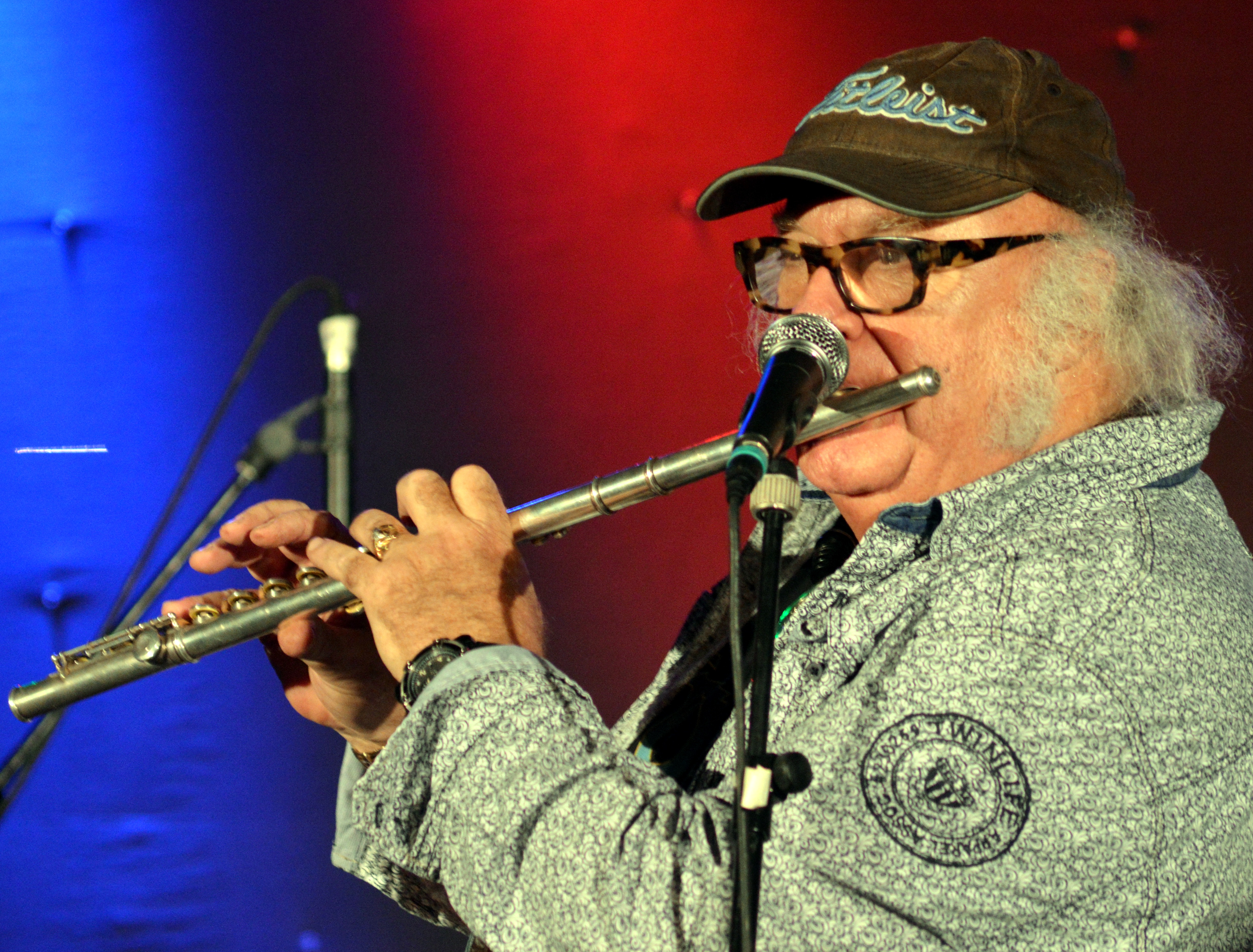 Thijs van Leer, founder member of Focus, at a Focus concert at Lowdham Village Hall, Nottinghamshire, November 27th, 2014.